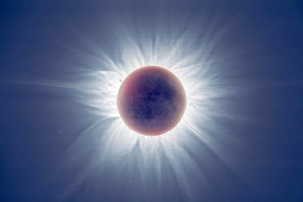 Composite image was made by Fred Espenak (NASA) from 22 separate pictures of the Moon and Sun all taken from Chisamba, Zambia during the total phase of the 2001 June 21 solar eclipse.